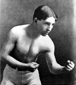 A black and white photo of Frankie Neil, world bantamweight championship boxer with left arm outstretched, shirtless, in white trunks.